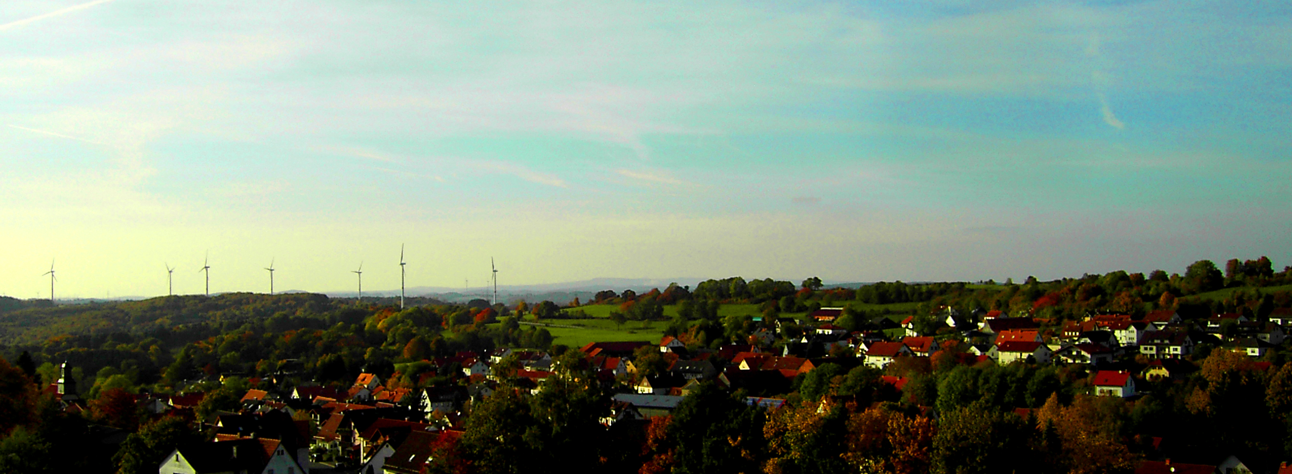 Village of Hutten (Main-Kinzig-Kreis), Germany